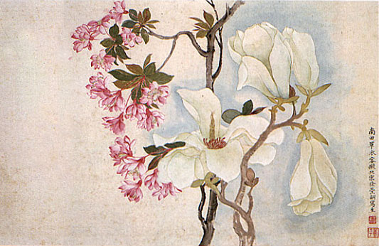 A painting of magnolia and ornamental cherry-tree flowers, by Chinese artist Yun Shouping, mid Qing Dynasty.